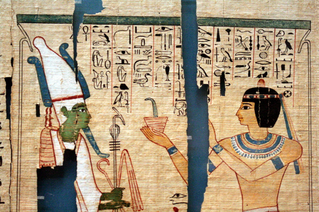 Pinedjem II. Book of the Dead. I had a wonderful day at the British Museum with CoryQ (of MonkeyRiverTown) and his wife Mary. These are everything I shot that day, unedited and uncleaned, except for shrinking them some to spead up the upload.